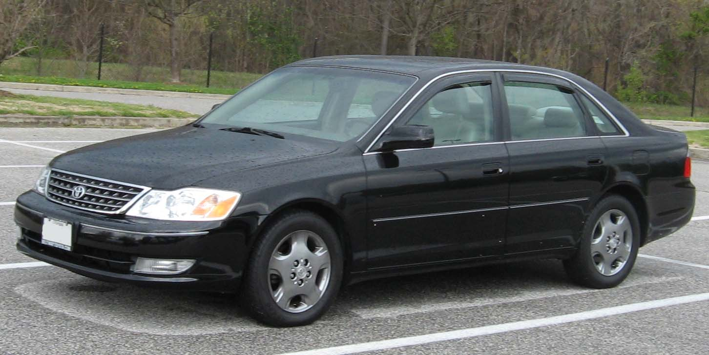 2003-2004 Toyota Avalon photographed in USA.